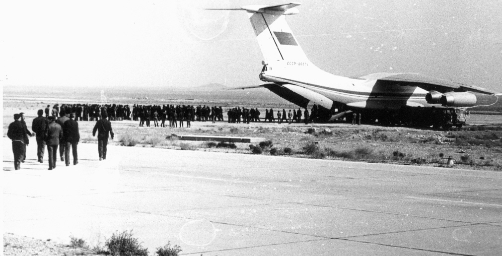 231st AA SAM Regiment receiving a reinforcement, brought by Ilyushin Il-76 aircraft.